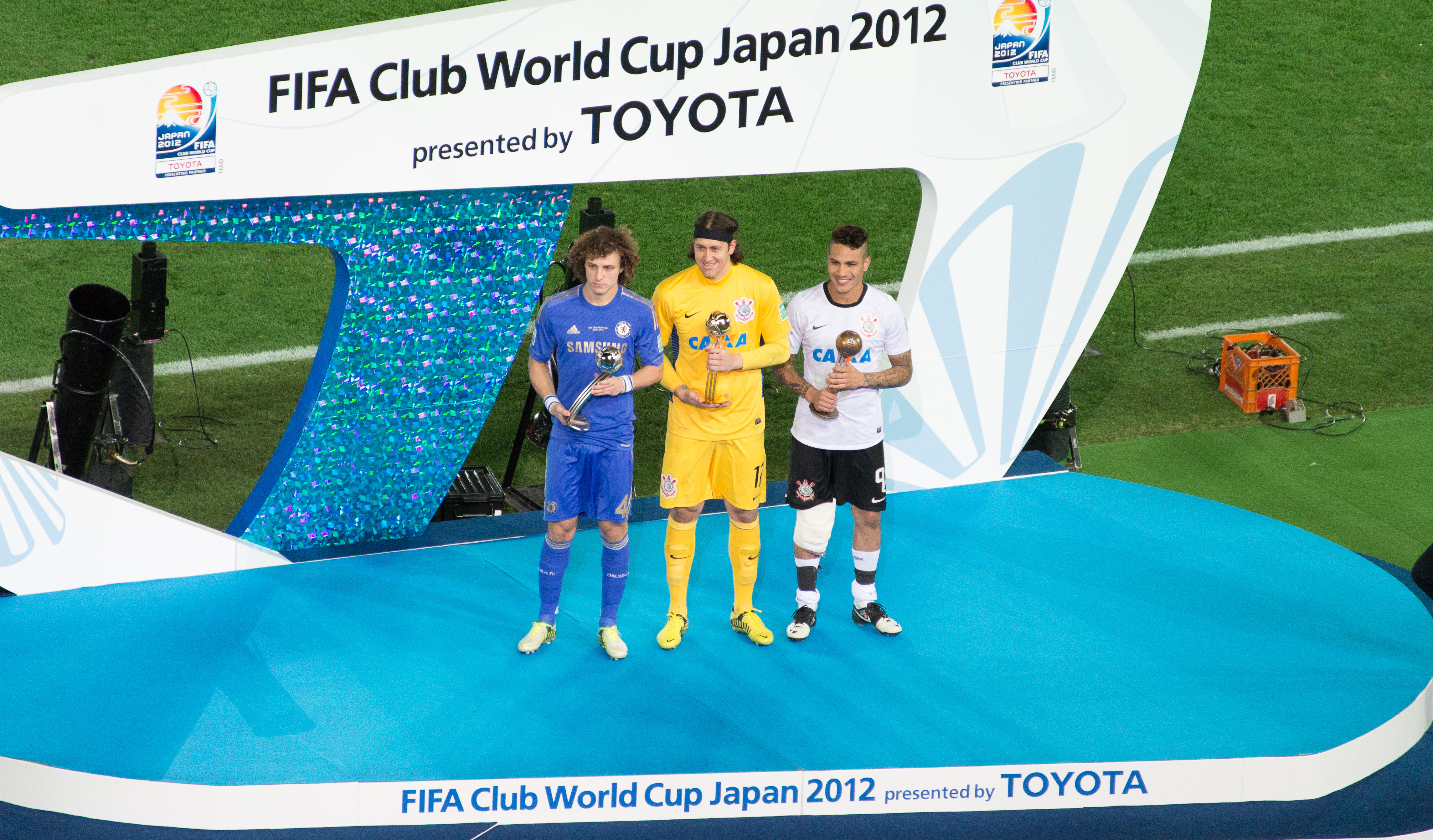 Cassio of SC Corinthians (center) holds the adidas Golden Ball trophy, alongside David Luiz, the silver ball winner (left) and Paolo Guerroro, the bronze ball winner.